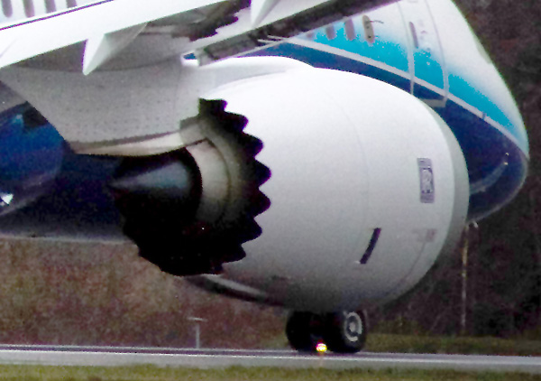 Prior to the first flight of Boeing 787 Dreamliner on December 15, 2009.